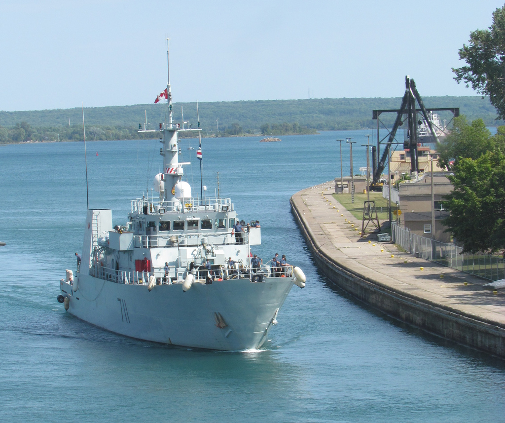 SAULT SAINTE MARIE, Mich. — The HMCS Summerside is a Kingston Class coastal defense vessel homeported in Halifax, Nova Scotia. She is 181 feet long, and 37 feet wide with a complement of 31-47 sailors. (U.S. Army Corps of Engineers photo by Michelle Hill)